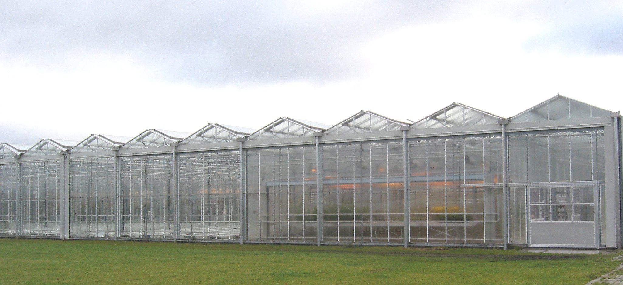 Modern glasshouse